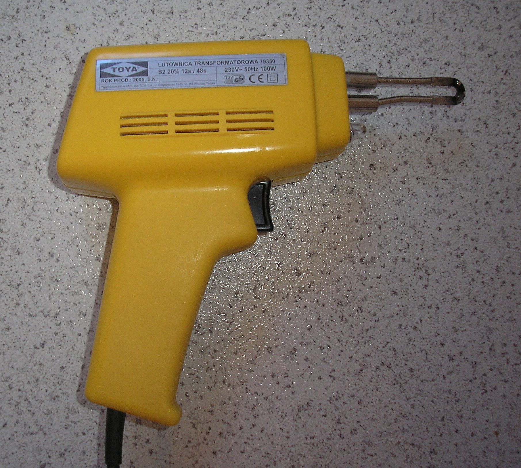 Transformer-type soldering gun.